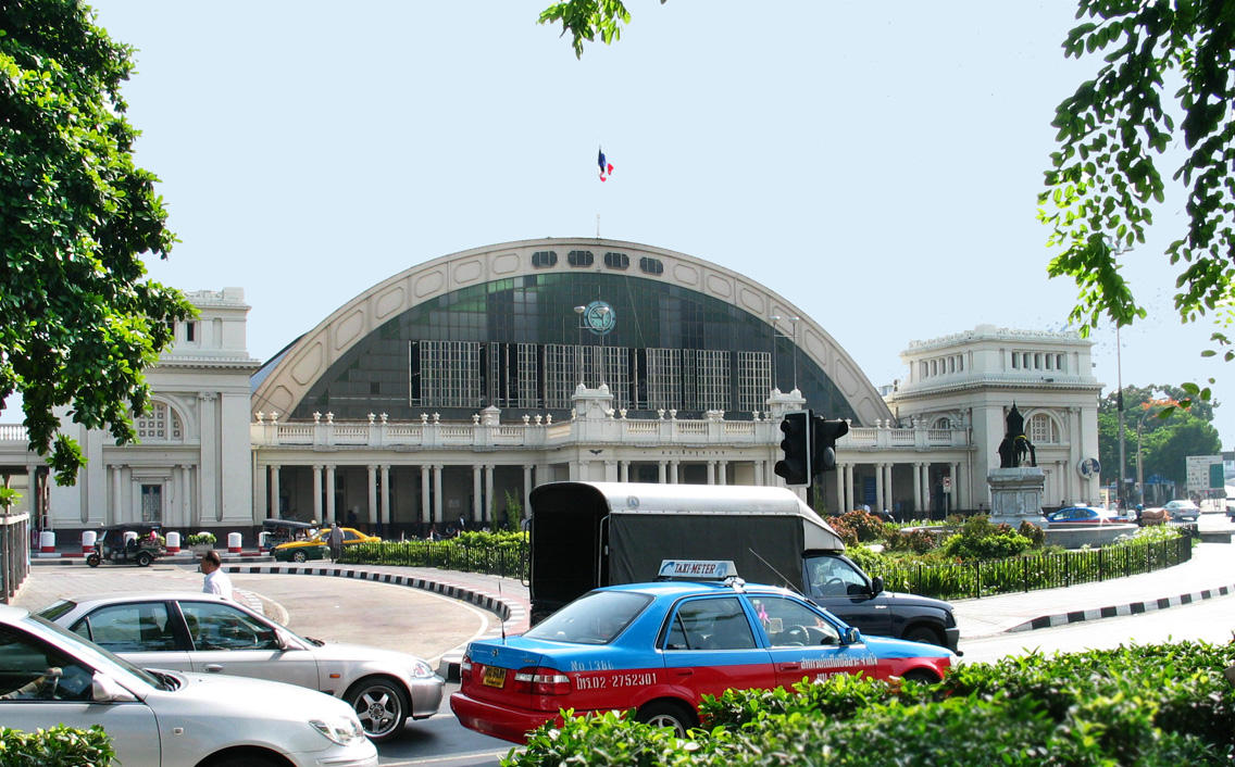 Central Railway Station Hualamphong, Bangkok, Thailand. Own Photo June 2003